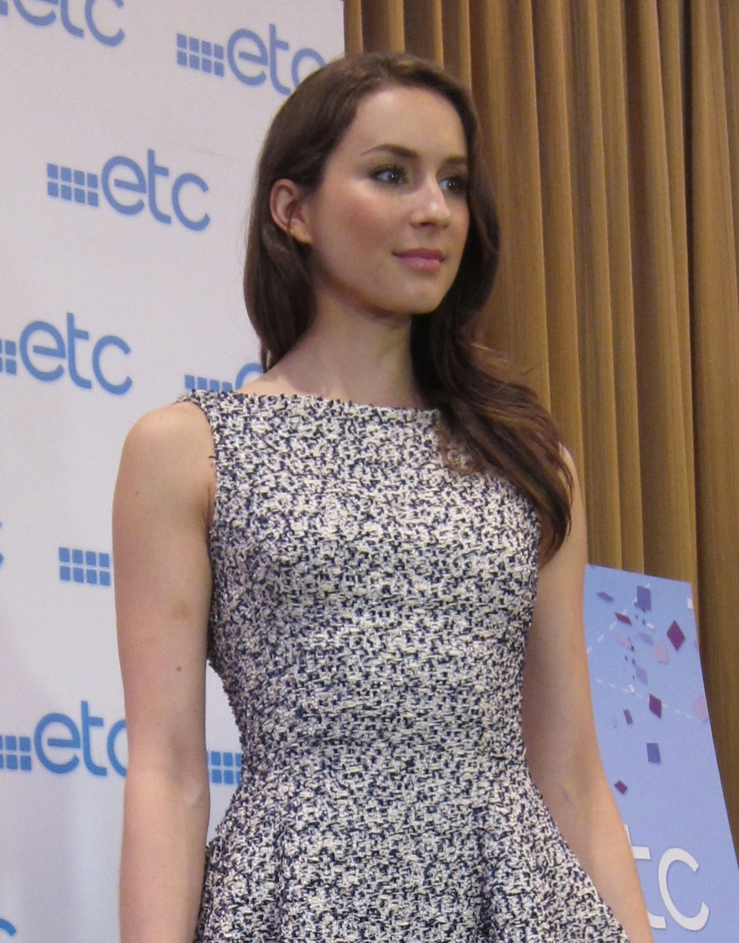 American actress Troian Bellisario visits the studios of ETC television studios in Manila.